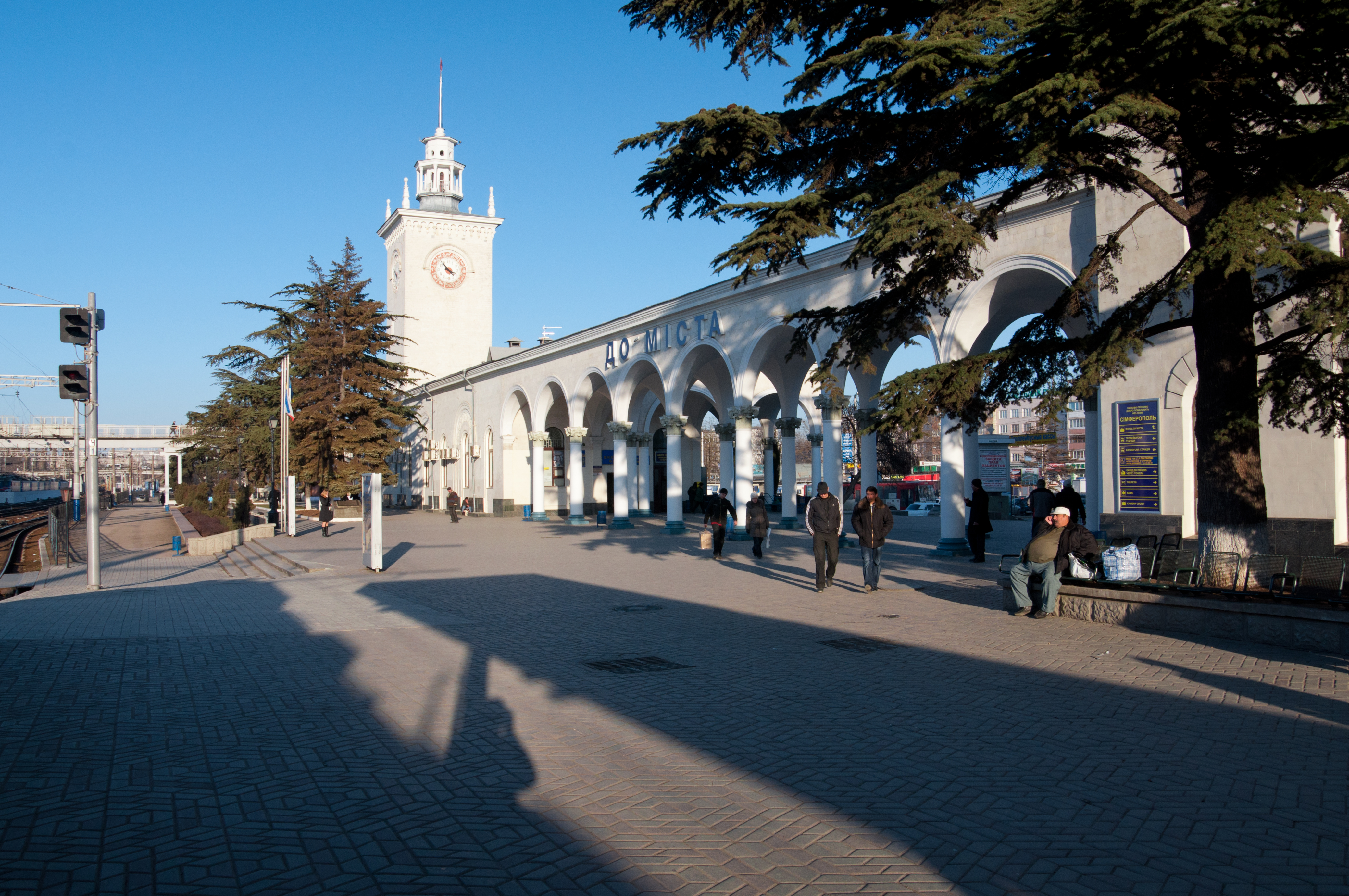 Railway station in Simferopol